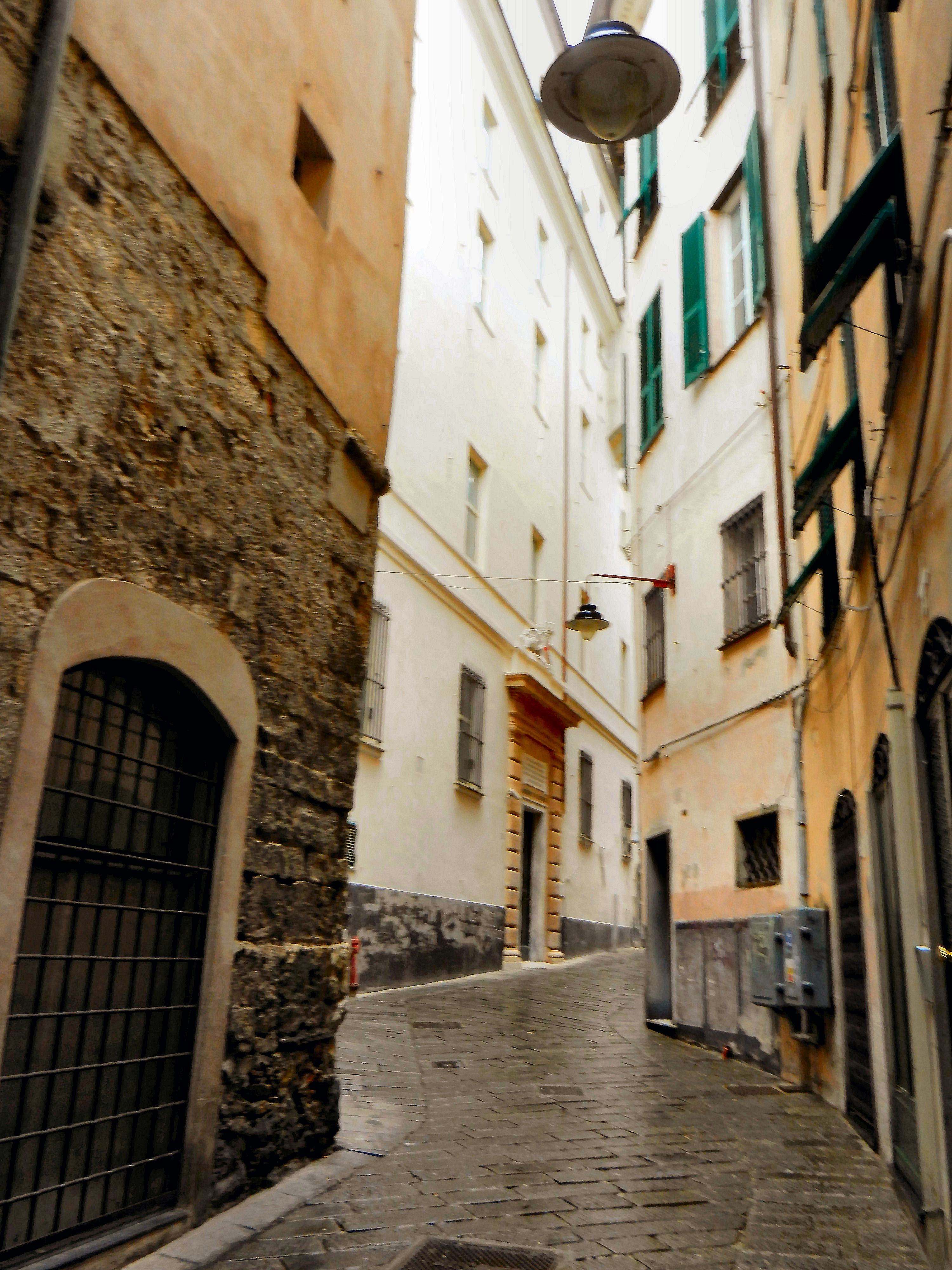 Genoa, Italy, quarter of Molo, T. Reggio street and the "Palazzetto Criminale" (ancient courthouse and prison)